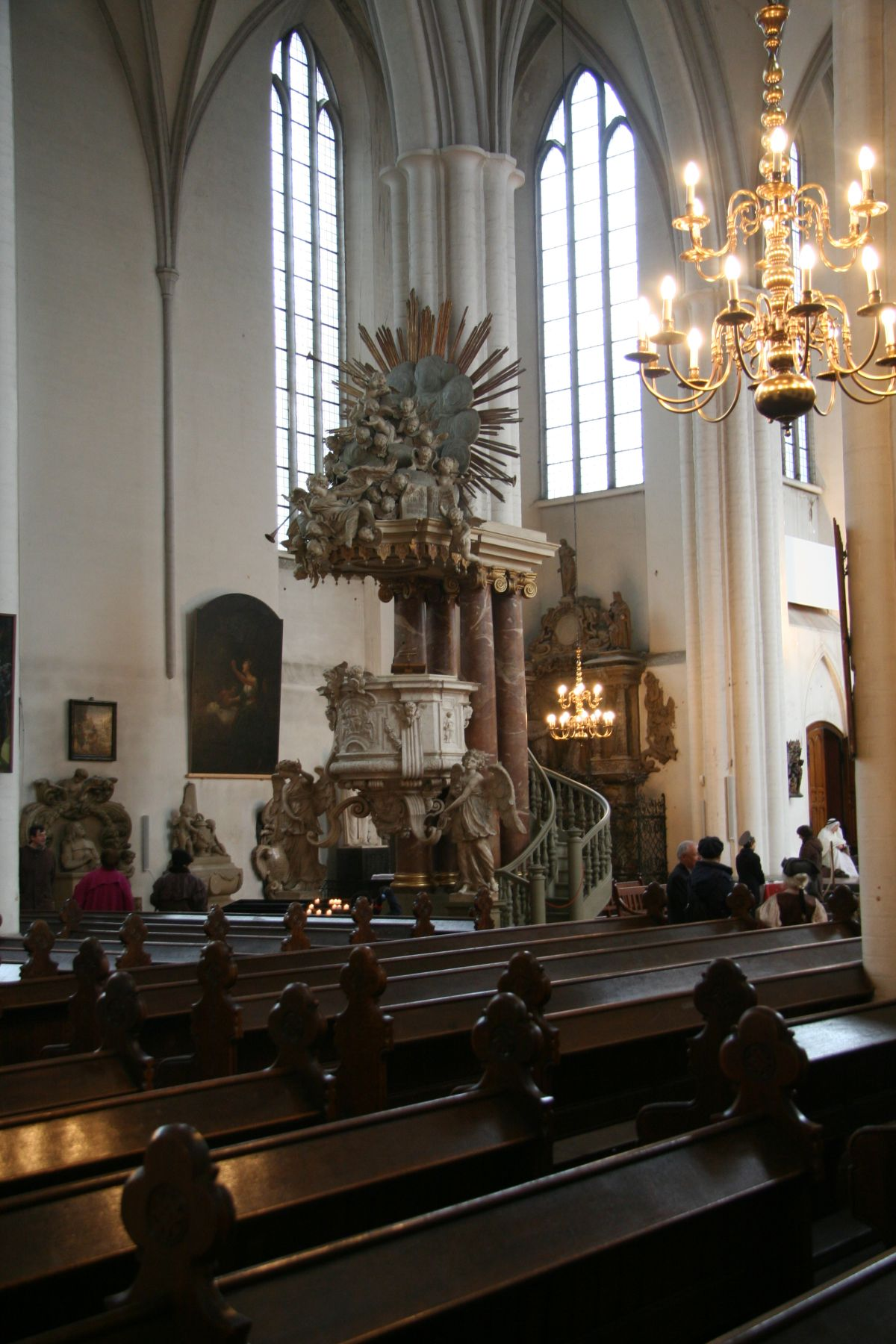 St. Mary Berlin